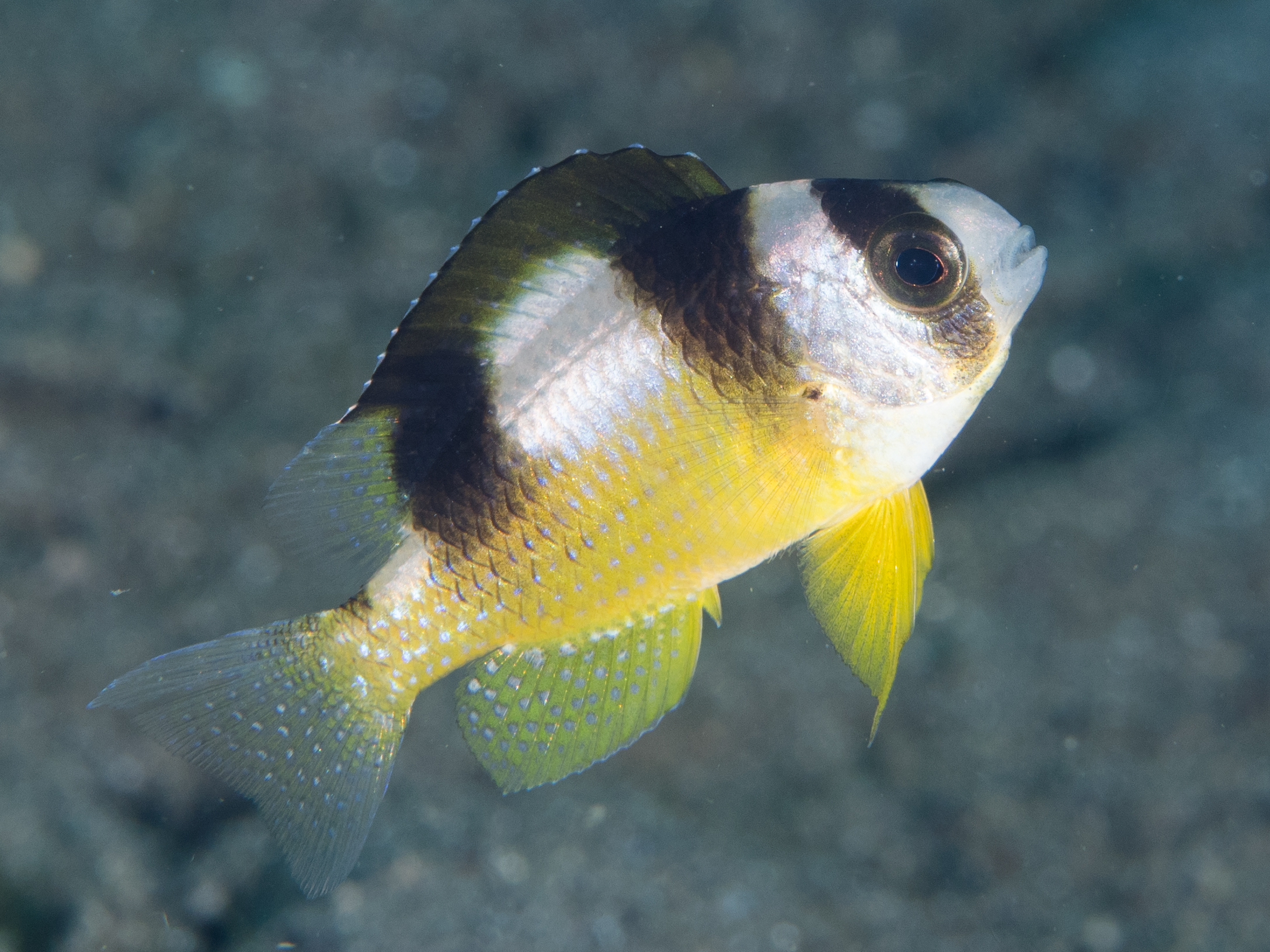 Lembeh, Indonesia - Black-banded demoiselle (Amblypomacentrus breviceps)